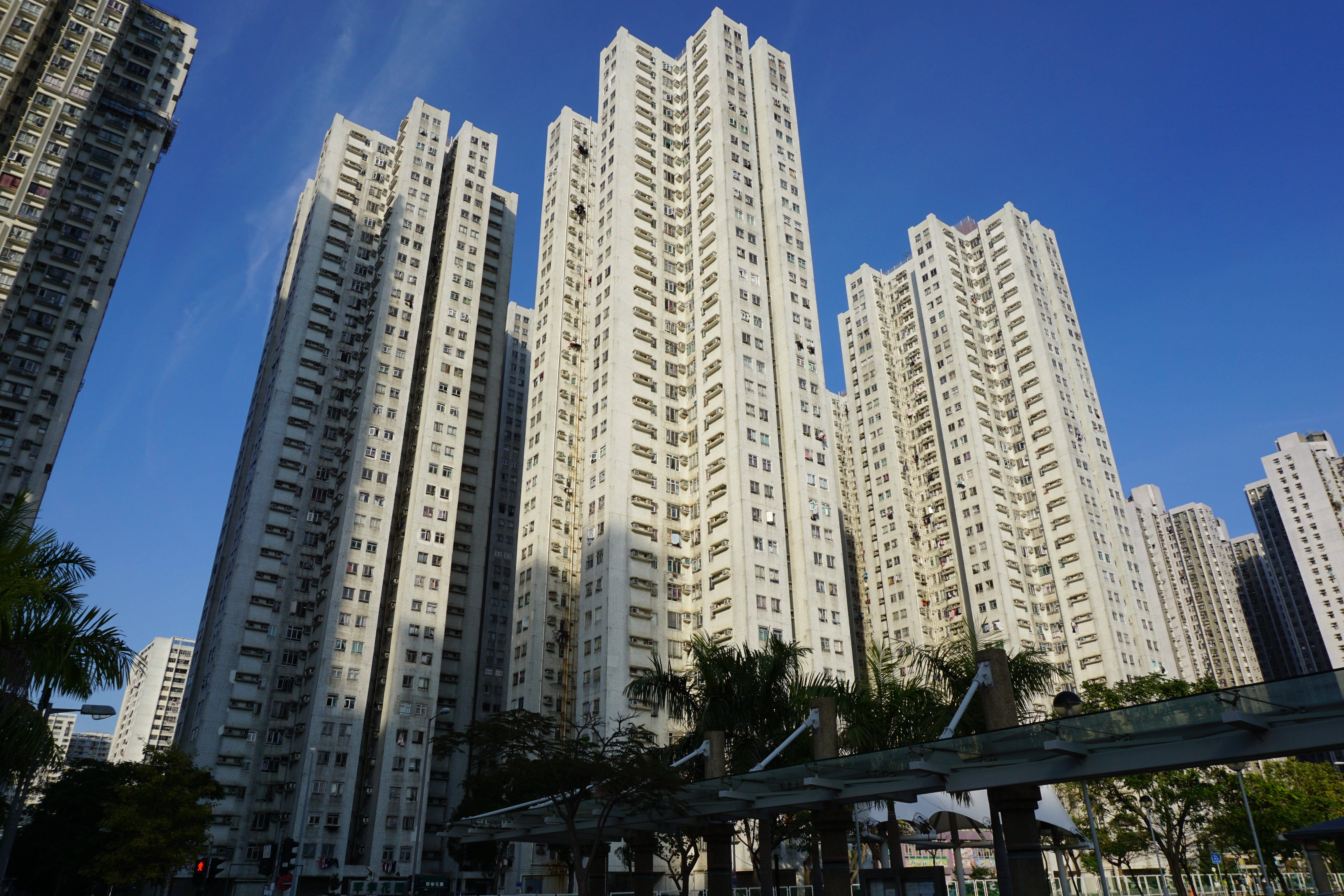 Tsui Ning Garden in Tuen Mun, Hong Kong.